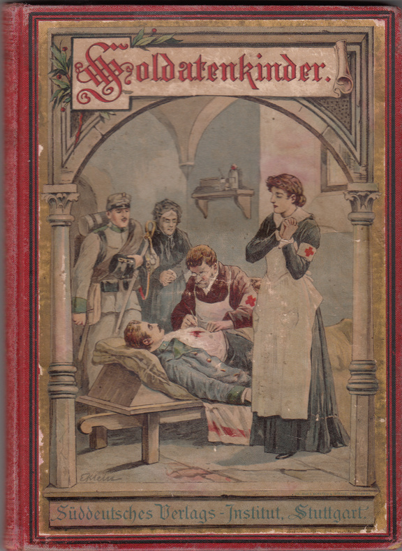 Berthe Katscher's Soldatenkinder pub. in 1897